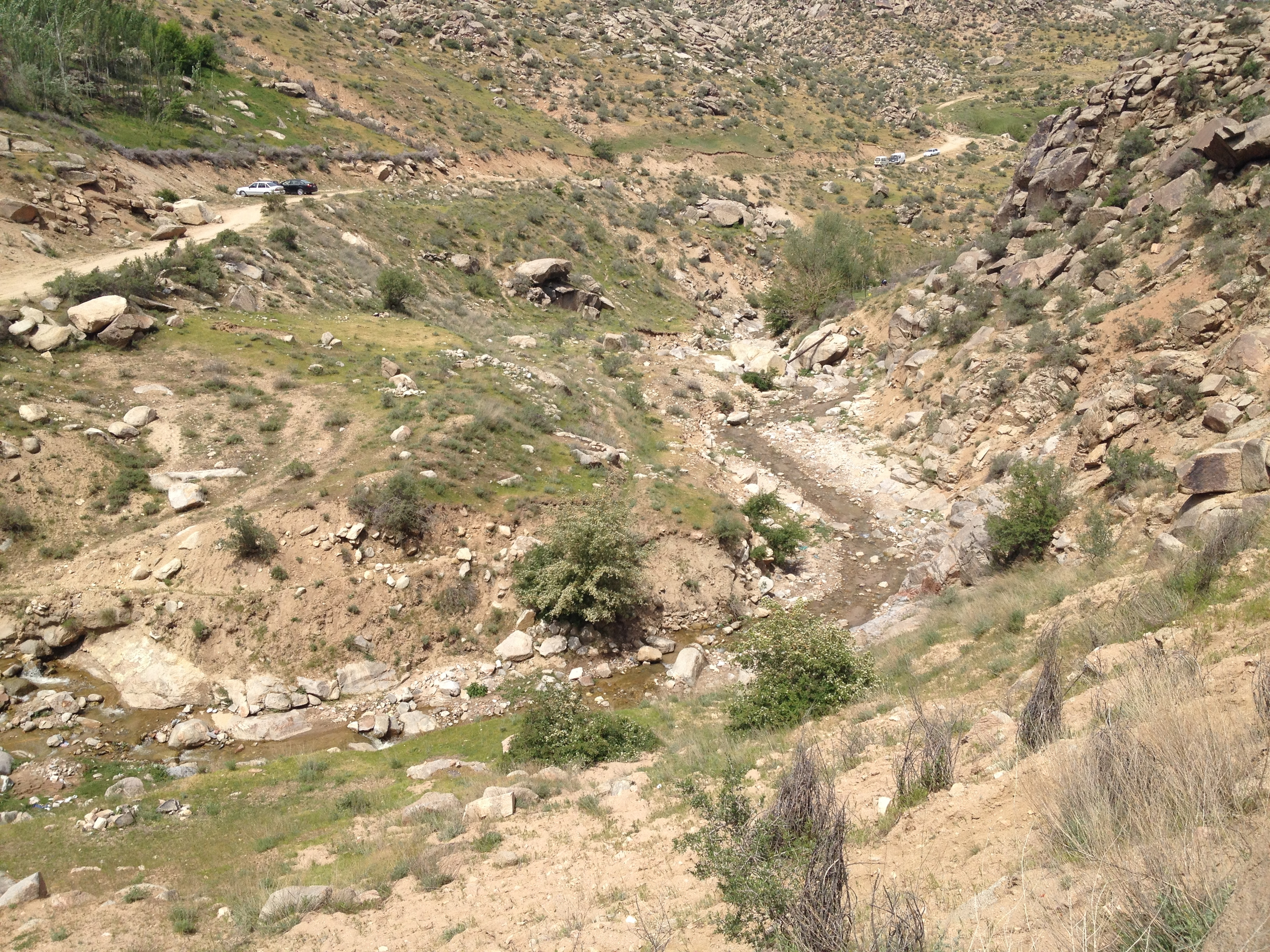 Valley of Jiltema Say